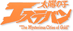 Logo of The Mysterious Cities of Gold (Japanese: 太陽の子エステバン).